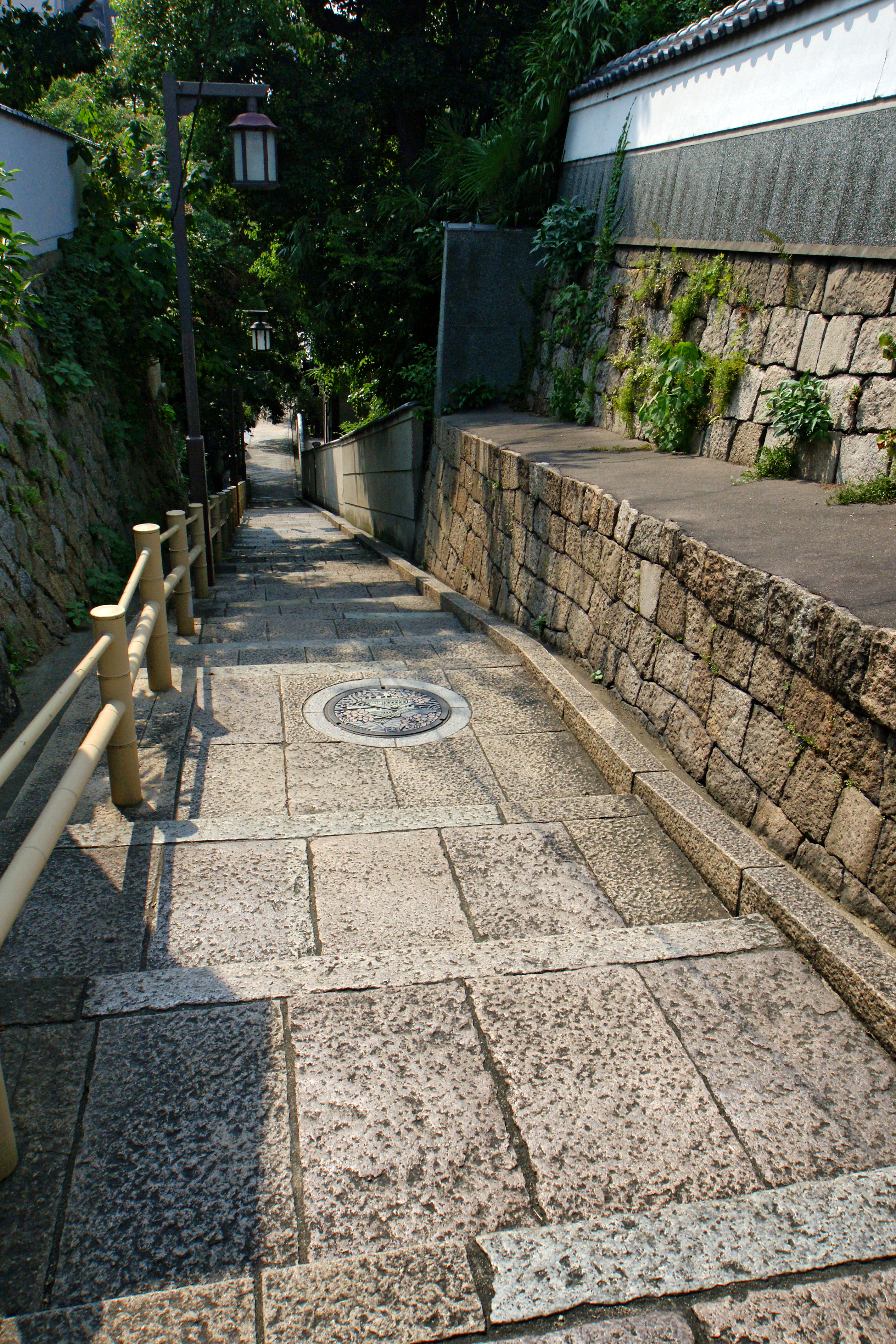 Kuchinawa-zaka in Tennoji-ku, Osaka, Osaka prefecture, Japan